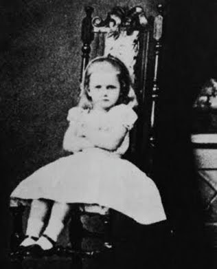 Mary Hilton Badcock.